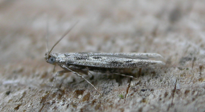 Batrachedra praeangusta, to MV light, Hellerup, Denmark, 11 August 2003